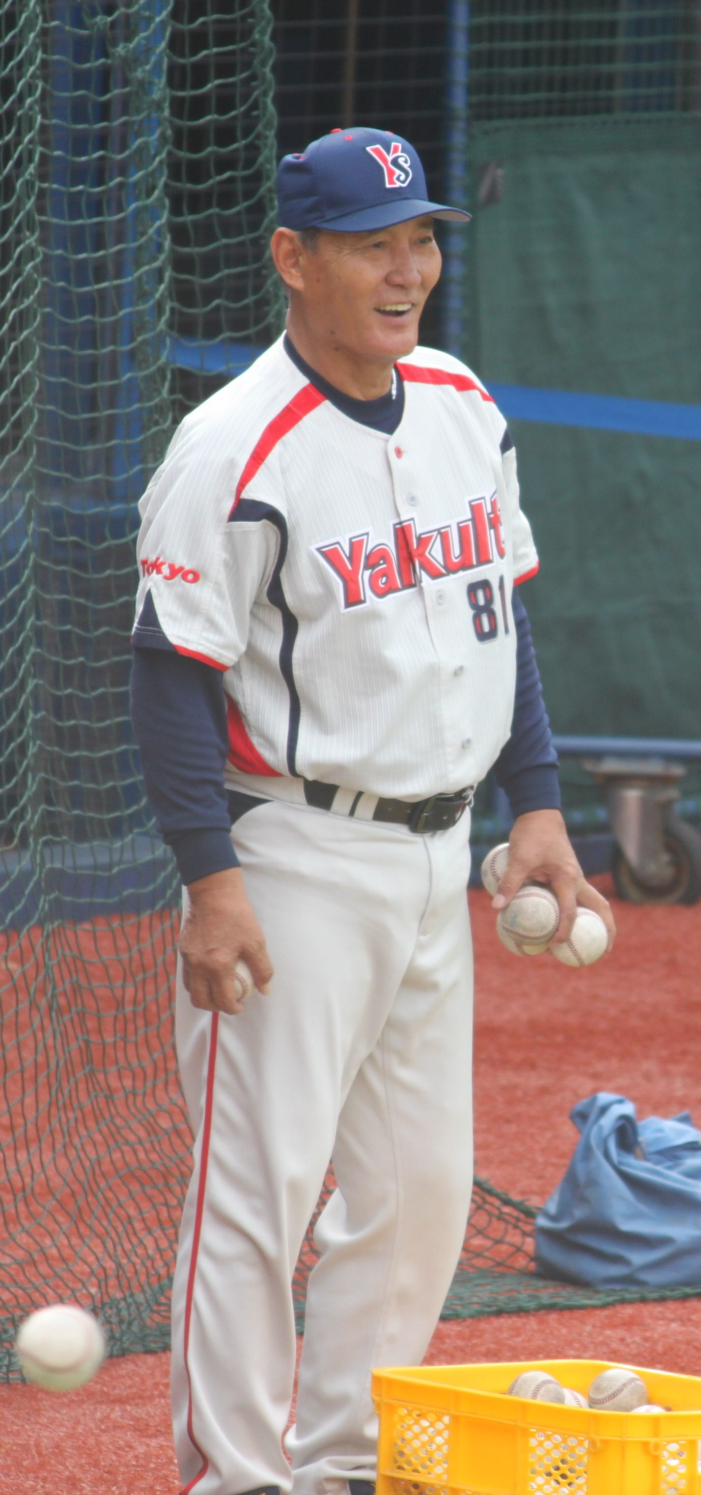 Takao Ise, coach of the Tokyo Yakult Swallows, at Yokohama Stadium.